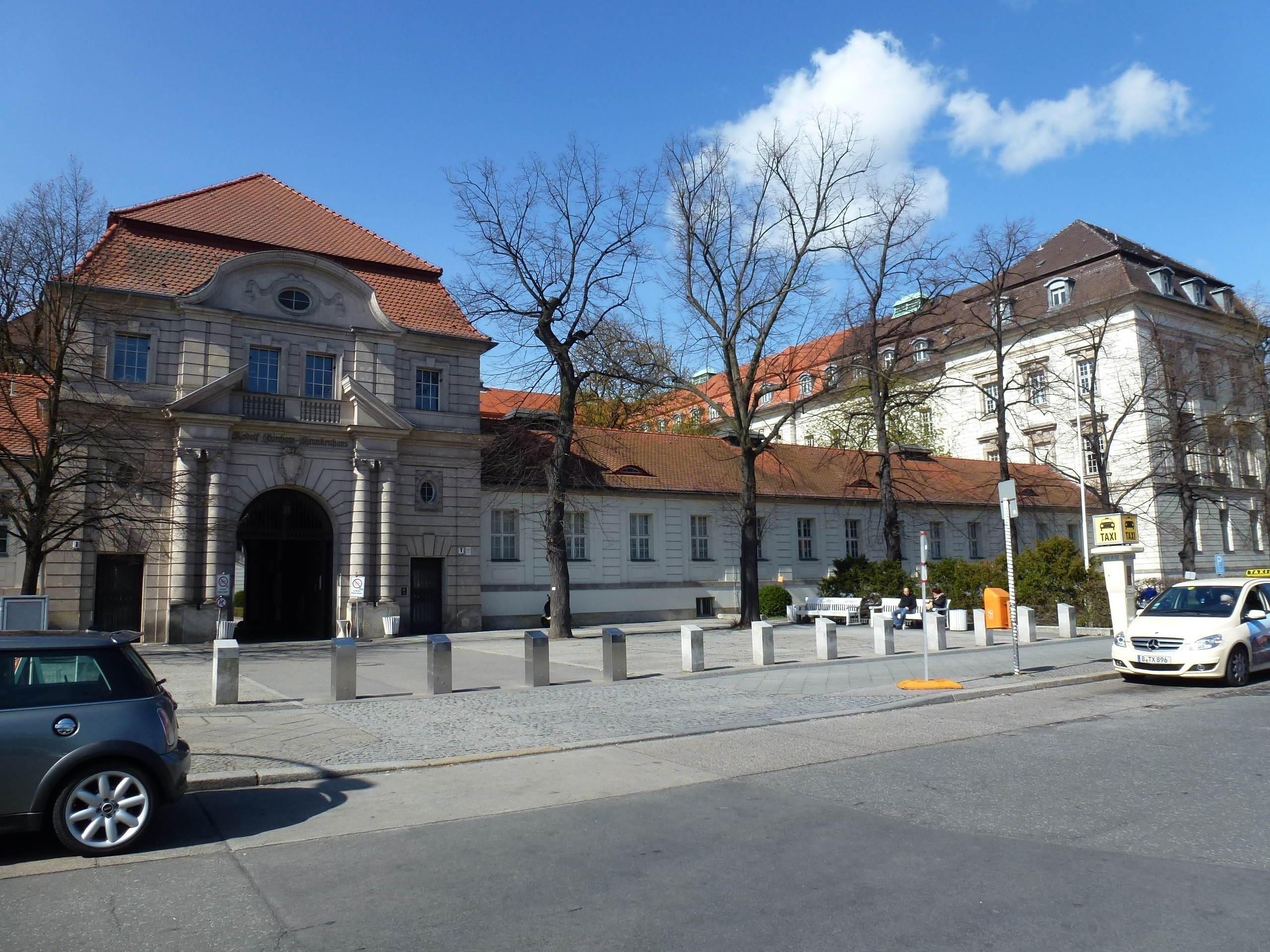 Berlin-Wedding Augustenburger Platz